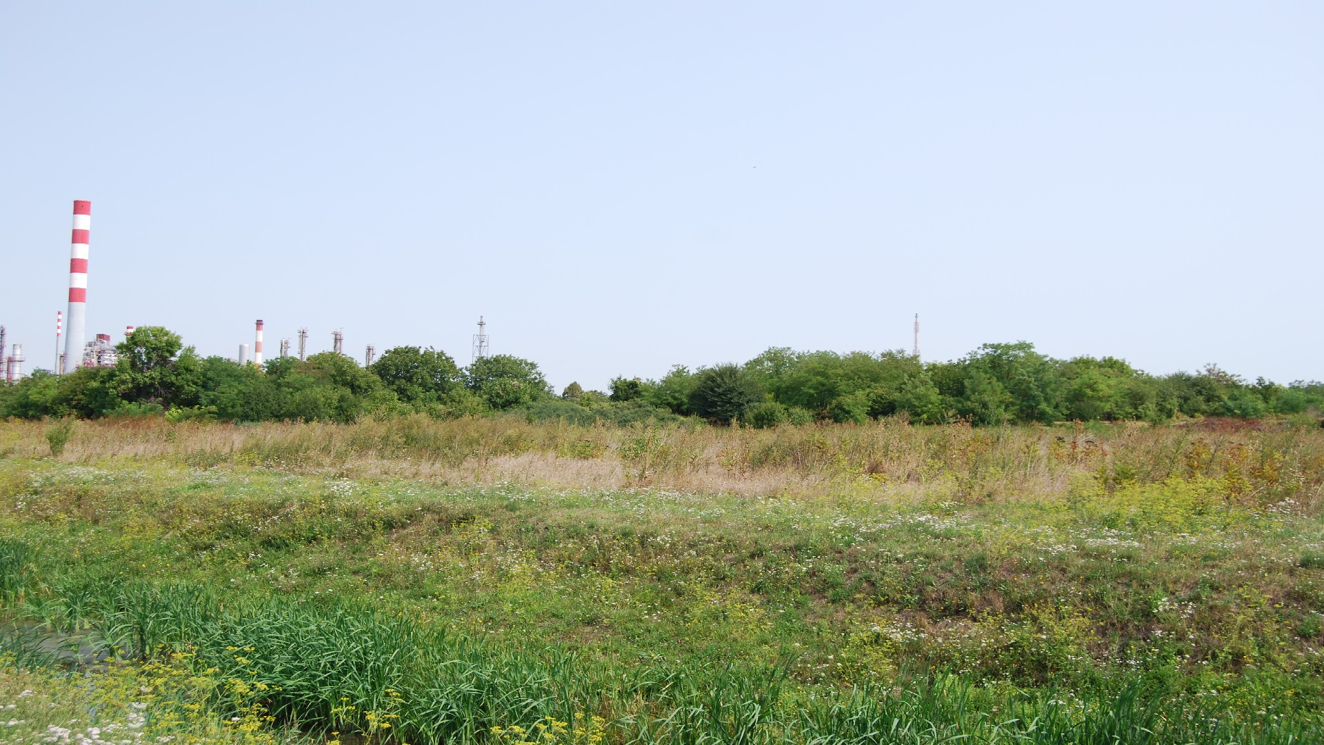 Archaeological site Starčevo, near Pančevo